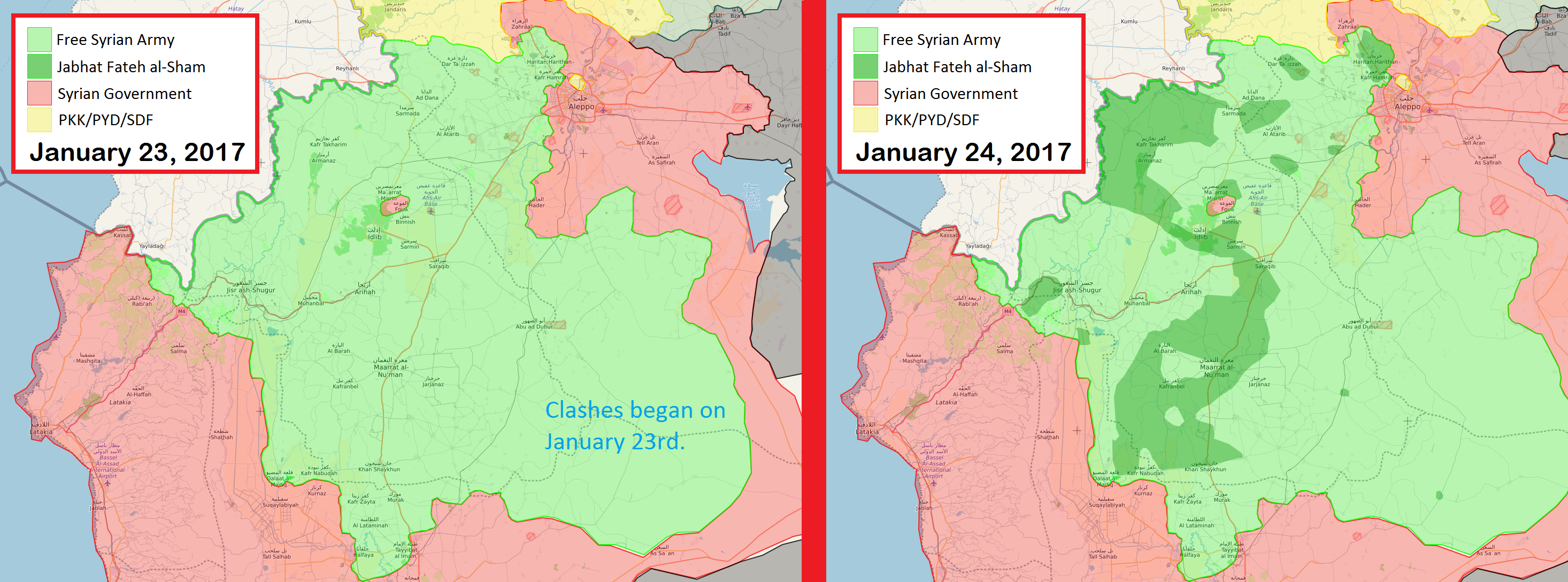 The clashes between the Free Syrian Army and the Nusra Front in January 2017.